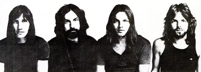 Roger Waters, Nick Mason, David Gilmour and Richard Wright. Trade ad and inside cover for Pink Floyd's album Meddle.